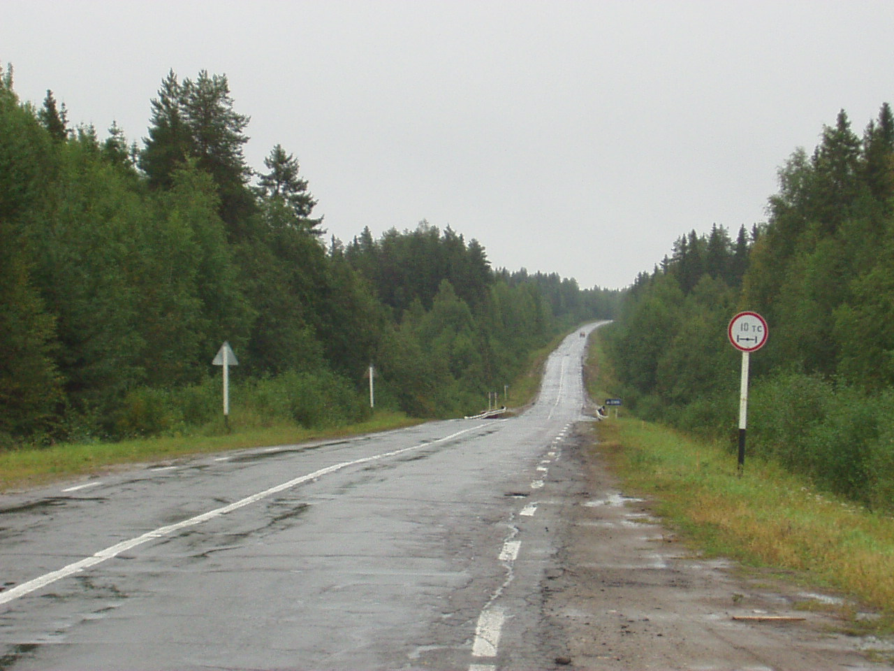 Kholmogorsky District of Arkhangelskaya obl., Siyskiy nature reserve